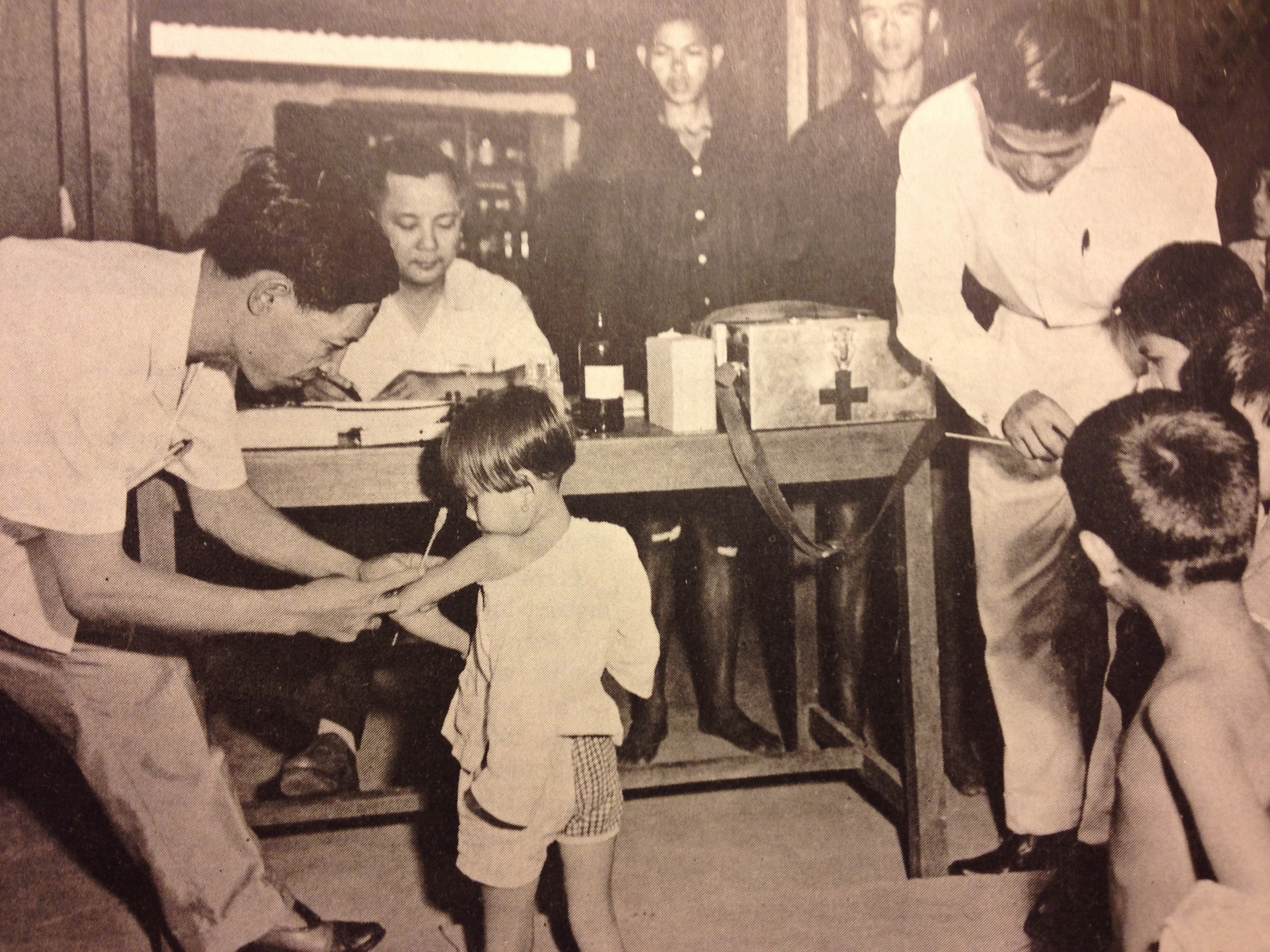 Village first aid station in the Republic of Vietnam